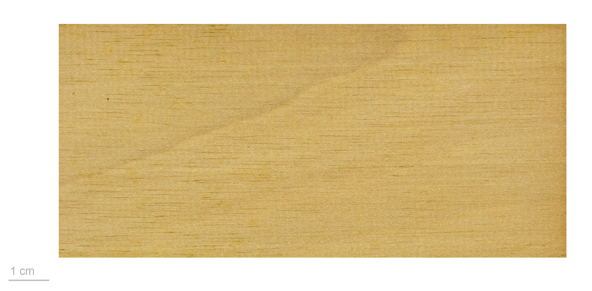 Fine-leaf Wadara , wood